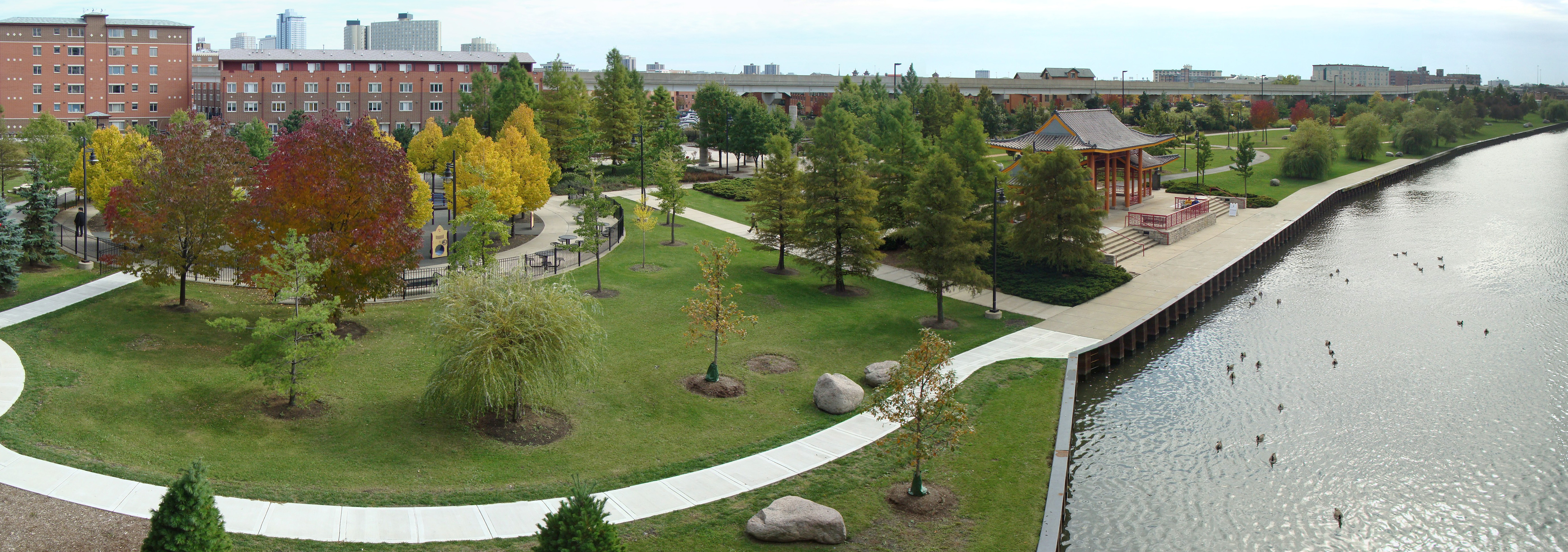 Panoramo of Ping Tom Memorial Park in Chinatown, Chicago from the 18th street bridge.